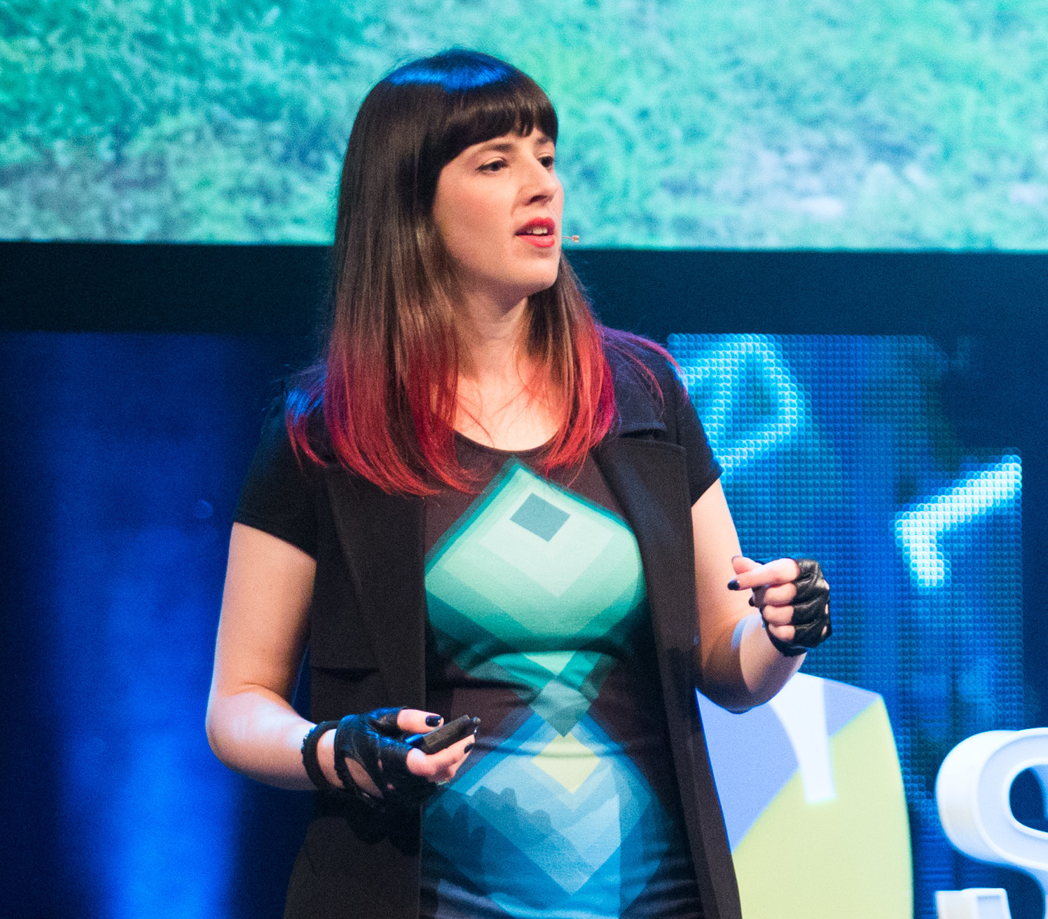 The SingularityU The Netherlands Summit 2016 took place on September 12 & 13 in Amsterdam, The Netherlands. The Netherlands Summit was aimed at bringing awareness about exponential technologies and their impact on business and policy. The theme of the summit was "Reality Check - Fast-Forward into our Future". For more information